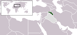 Location of Kurdistan Autonomous Region